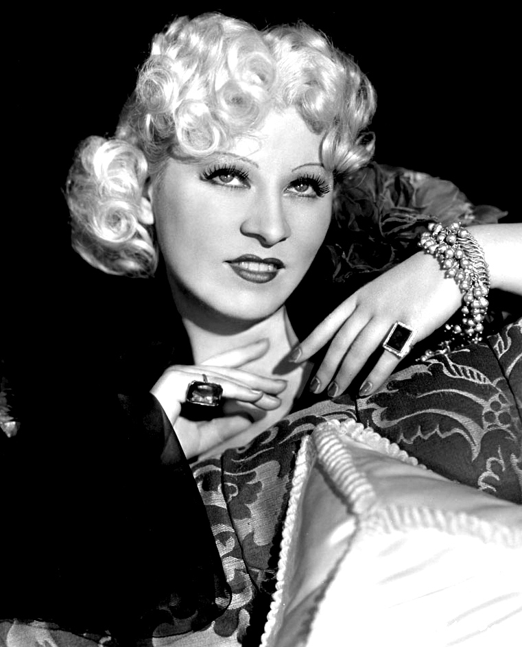 Publicity portrait of Mae West.